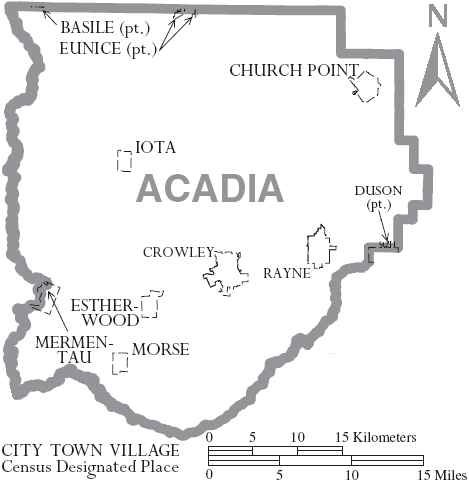 Map of Acadia Parish, Louisiana, United States with municipal boundaries